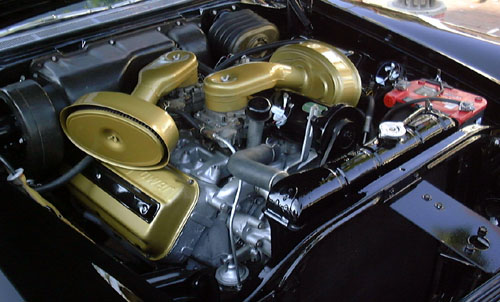 Early Chrysler Hemi engine in 1957 Chrysler 300C. Photo by User:Morven at the weekly Garden Grove, California car show on Friday, May 21, 2004.